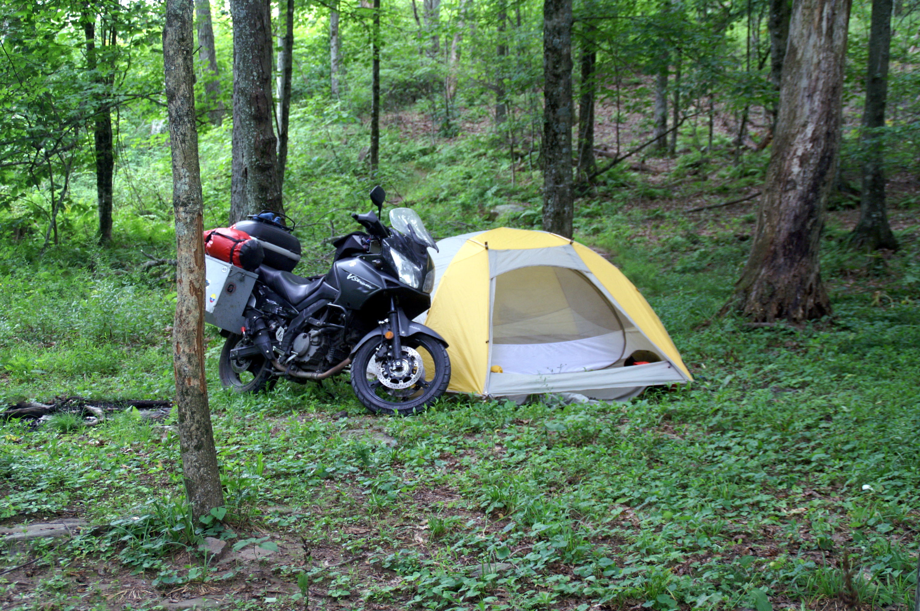 Motorcycle camping in Virginia.